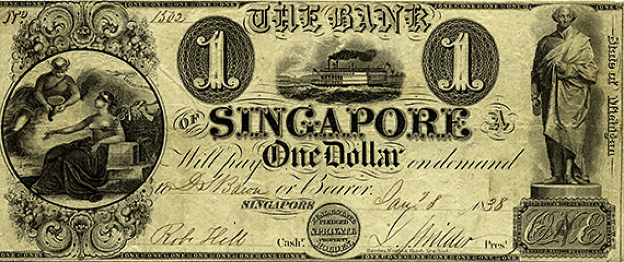 Dollar note from Singapore, Michigan